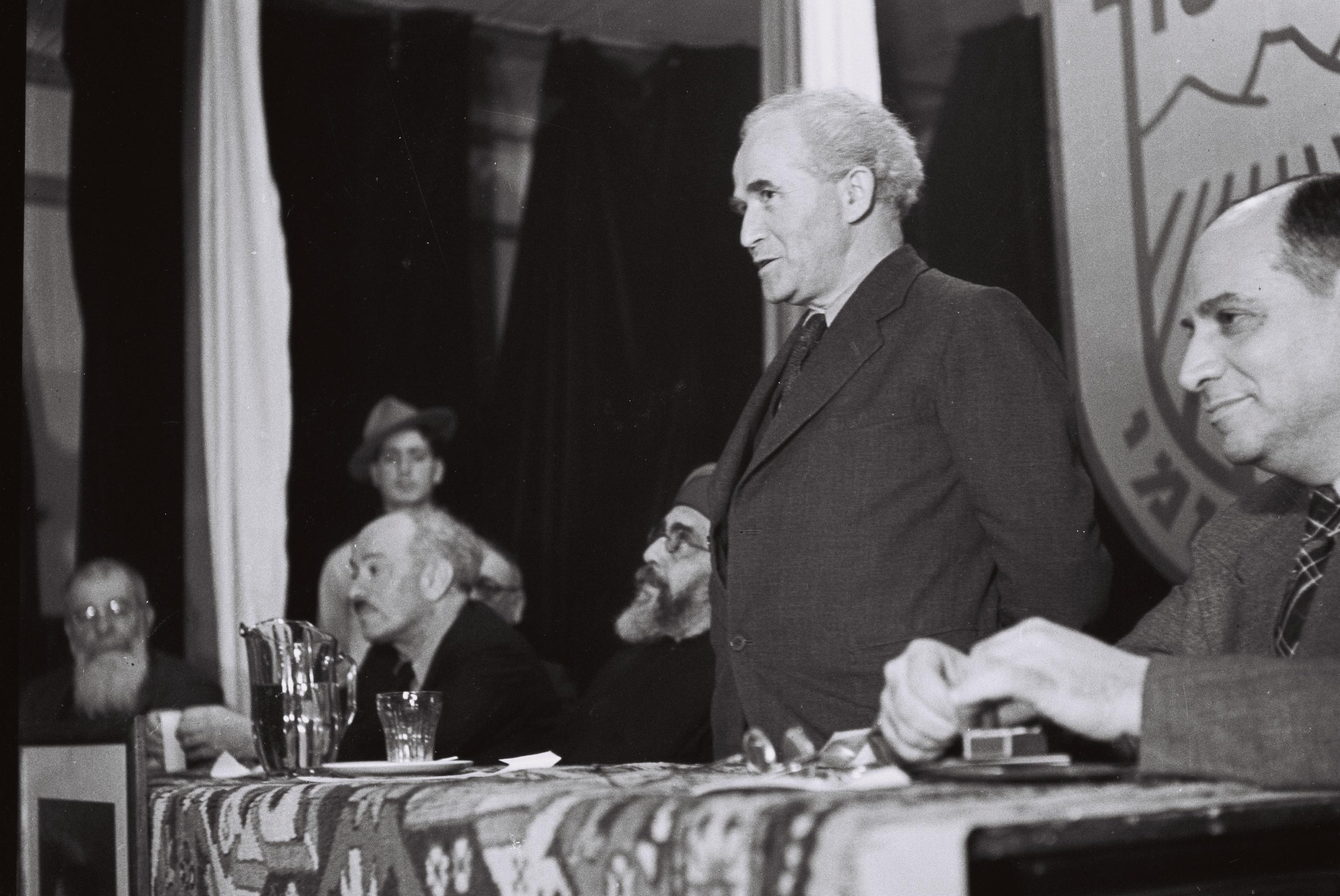 DAVID BEN GURION ADDRESSING THE "SEFARDI" RALLY FOR THE "KEREN HAYESOD" IN TEL AVIV. דוד בן גוריון נושא דברים בכינוס של העדה הספרדית למען קרן היסוד, בתל אביב.